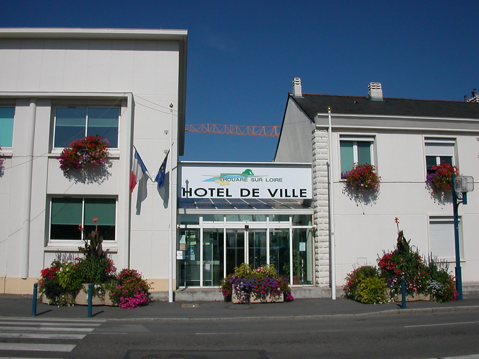 Town hall of Thouaré-sur-Loire